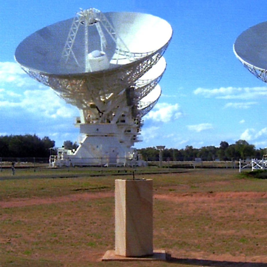 Colour photo of sandstone column (foreground), with sundial atop, commemorating Australian radio-astronomer Paul Wild. Large white antenna of Australia Telescope Compact Array (radio telescope) in background; two others obscured behind it and part of another on right.